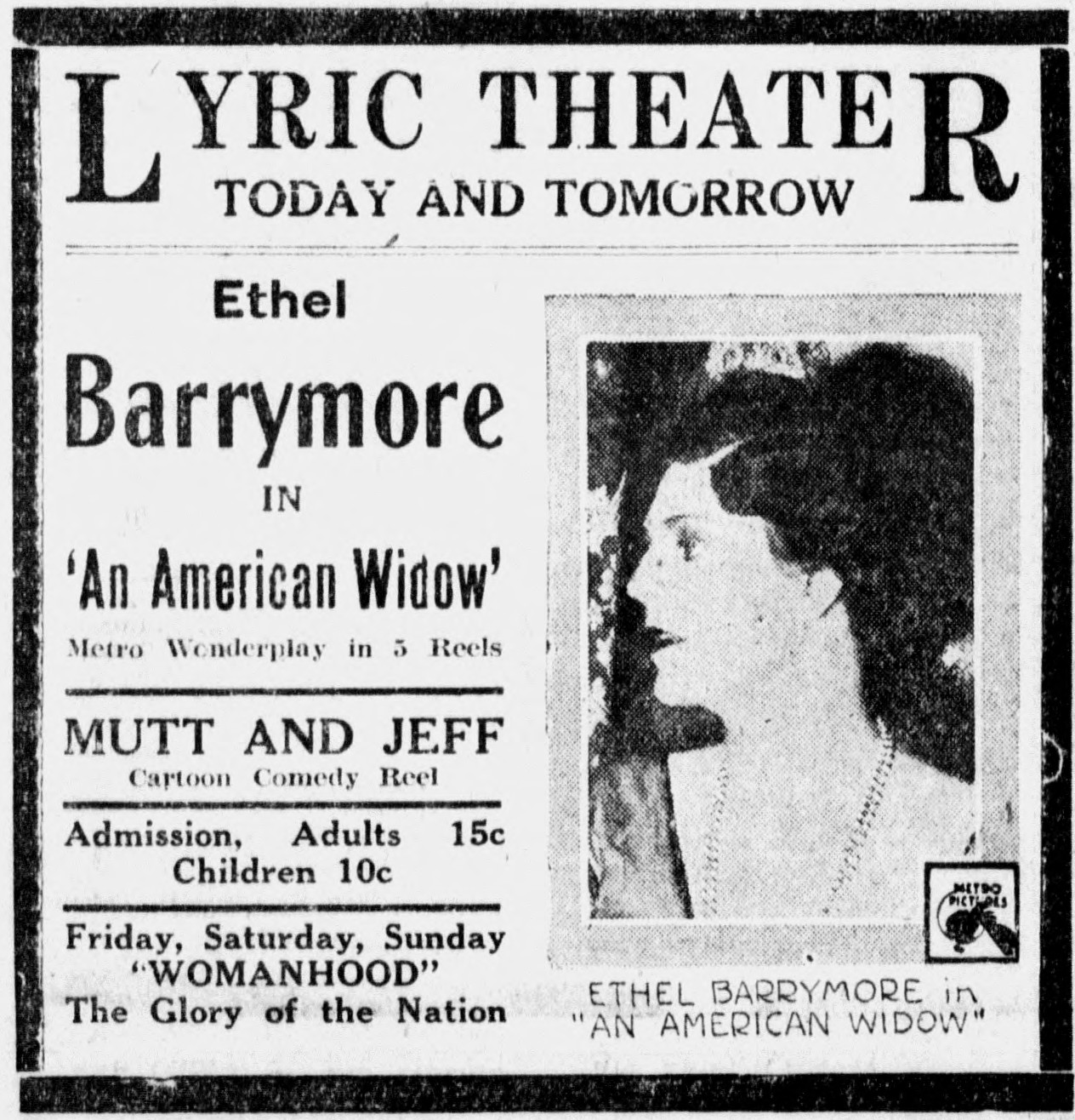 An American Widow is a lost 1917 silent film comedy directed by Frank Reicher and starring Ethel Barrymore.